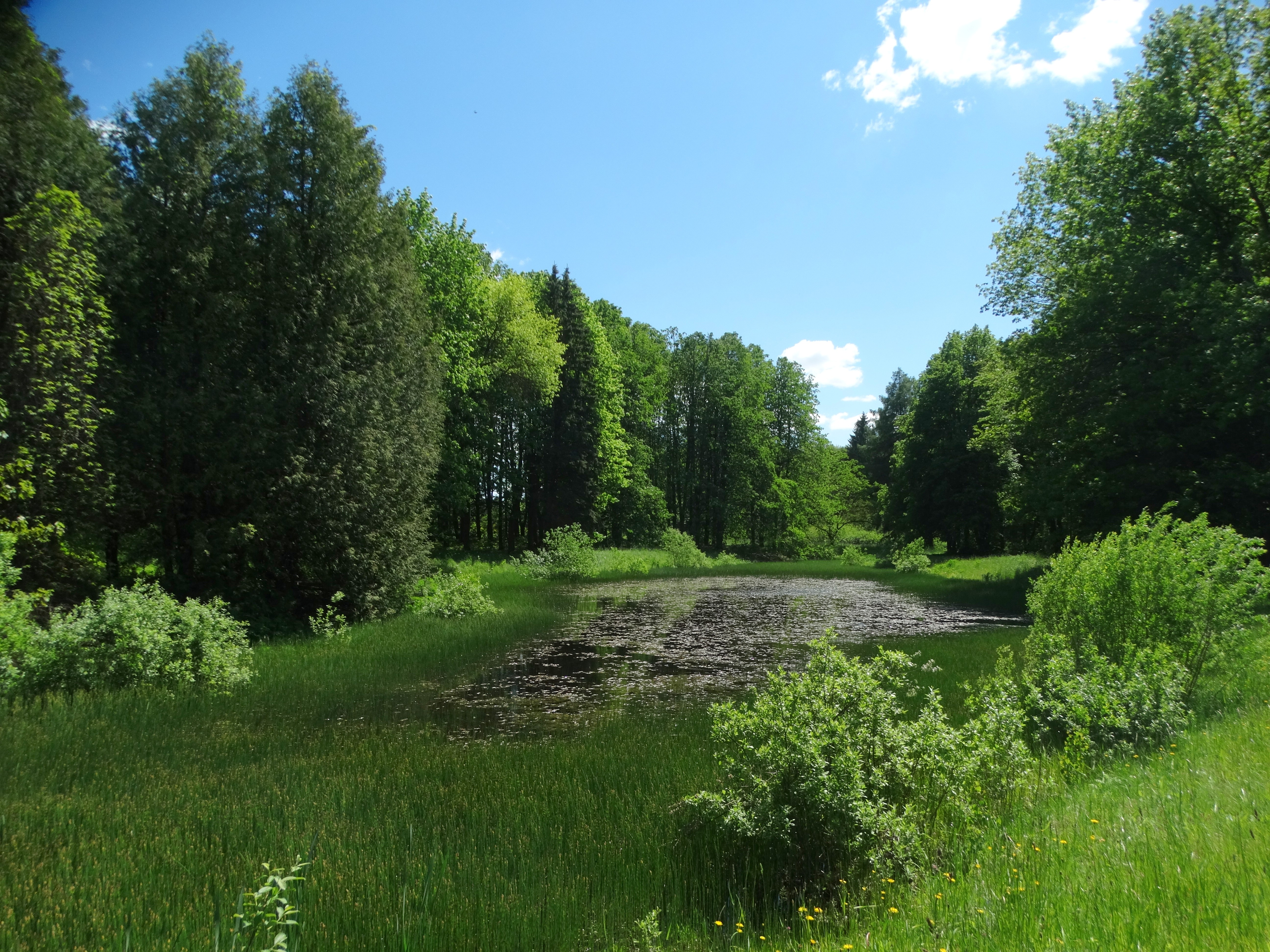 Girionys Park, Kaunas District, Lithuania